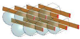 The way to organize pixels cooperating with spherical lenses arrays